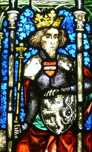 Rudolph I of Bohemia